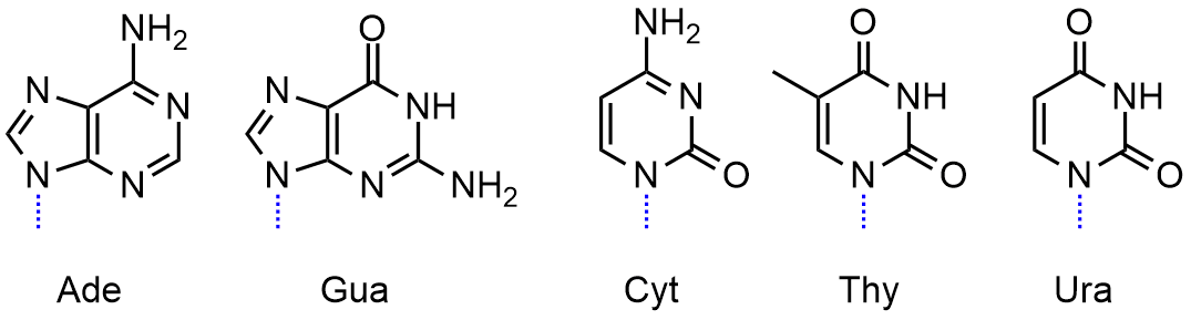 5 main nucleobases